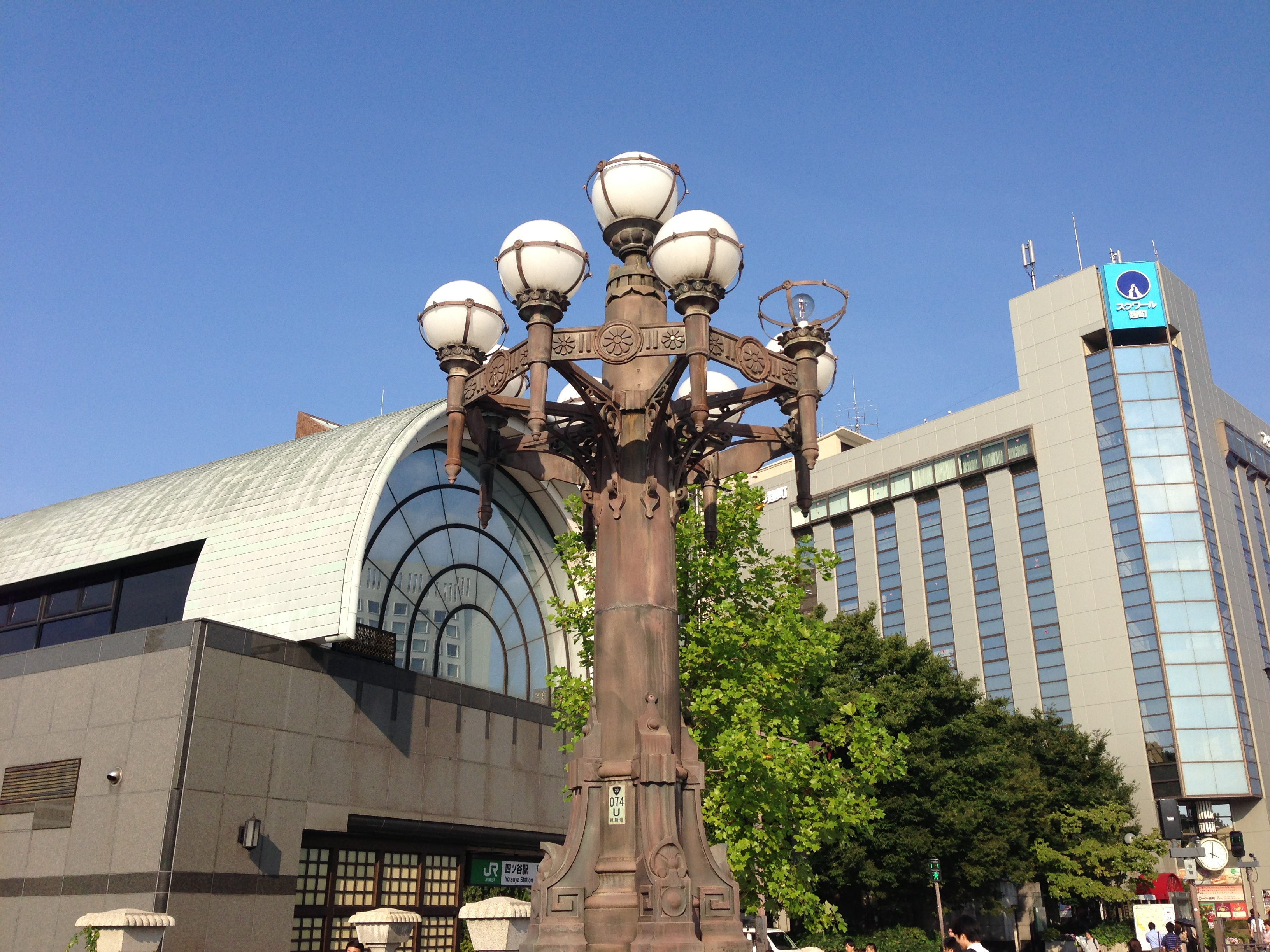 Old decoration of Yotsuya-mitsuke bridge